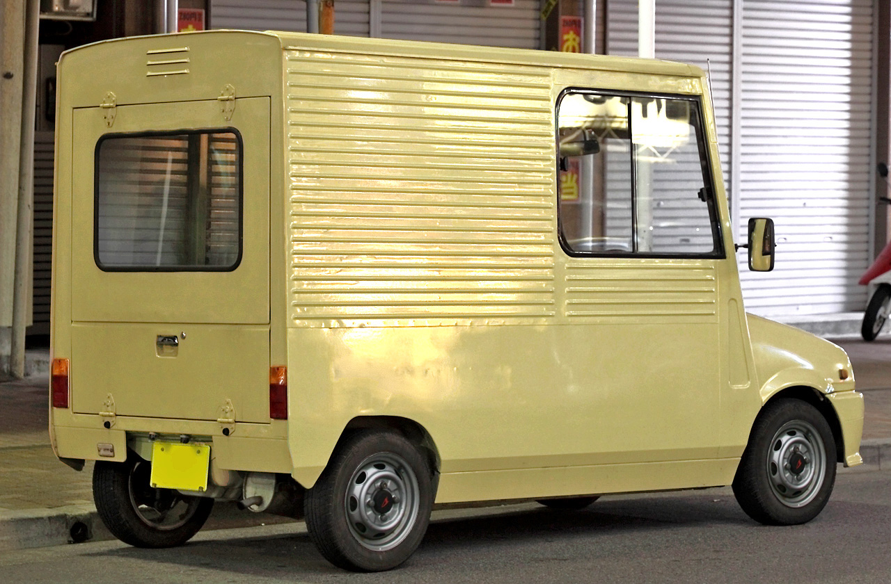 Second generation Daihatsu Mira Walk-through Van